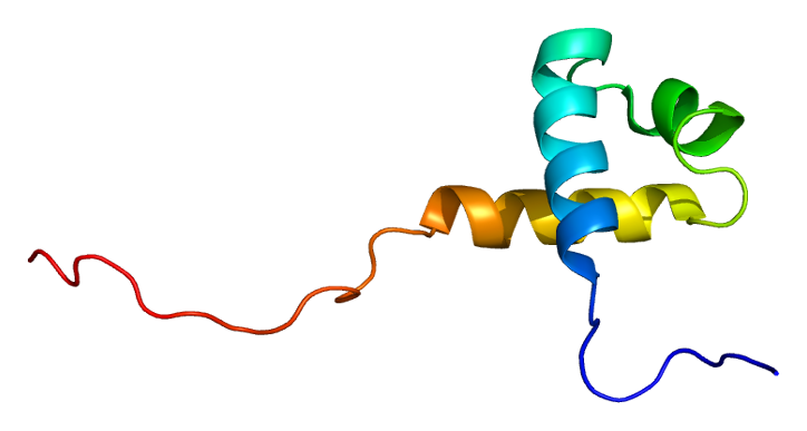 Structure of the MTA1 protein. Based on PyMOL rendering of PDB 2crg.